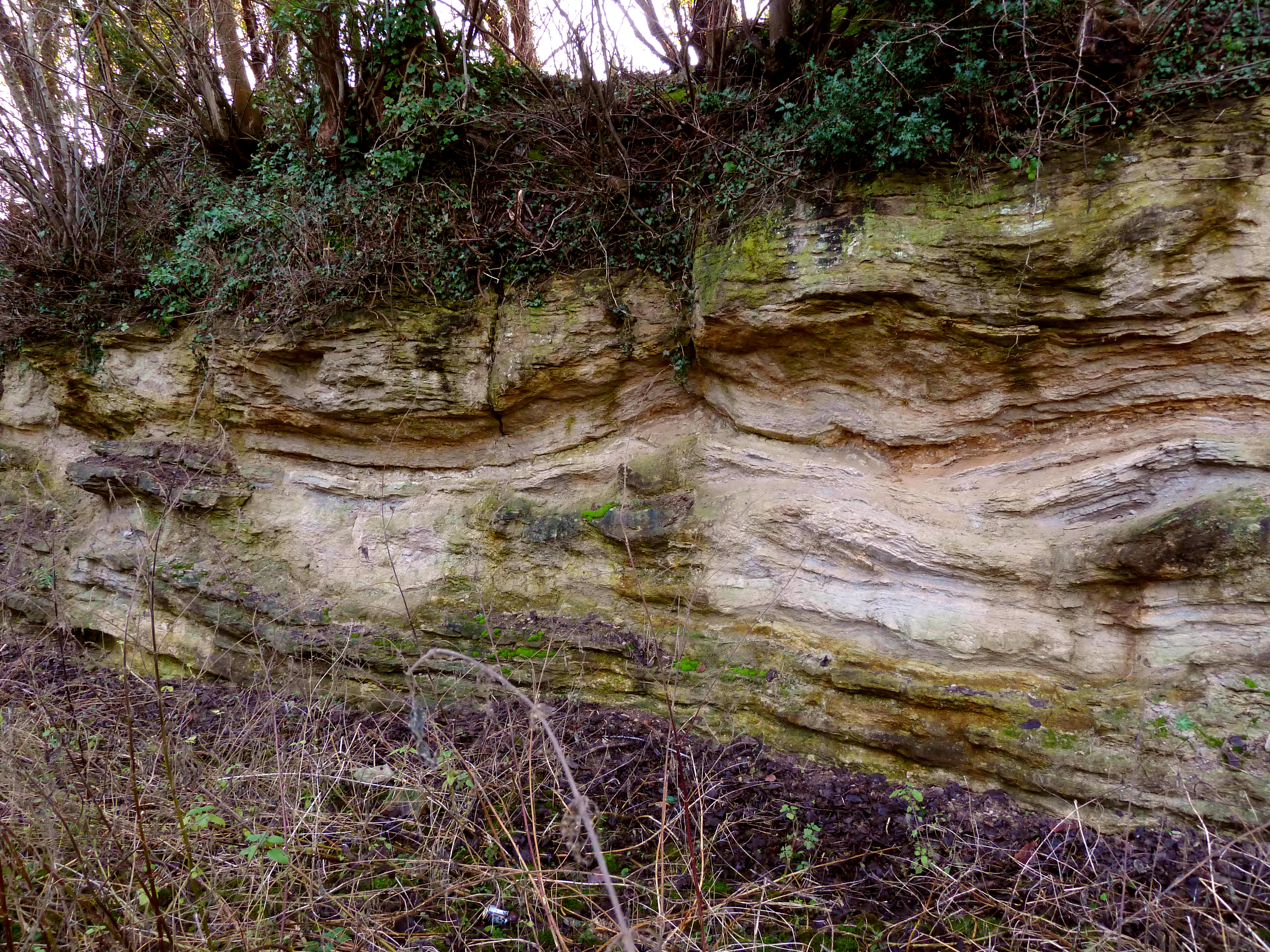 Quarry Moor, a Site of Special Scientific Interest, nature reserve and public amenity. It is situated at the south edge of Ripon, North Yorkshire, England. It has cliffs of Magnesian Limestone, exposed by past quarrying, and protected calcareous grassland on which diverse wild flowers grow, besides some rare plants. Showing exposed Magnesian Limestone strata.